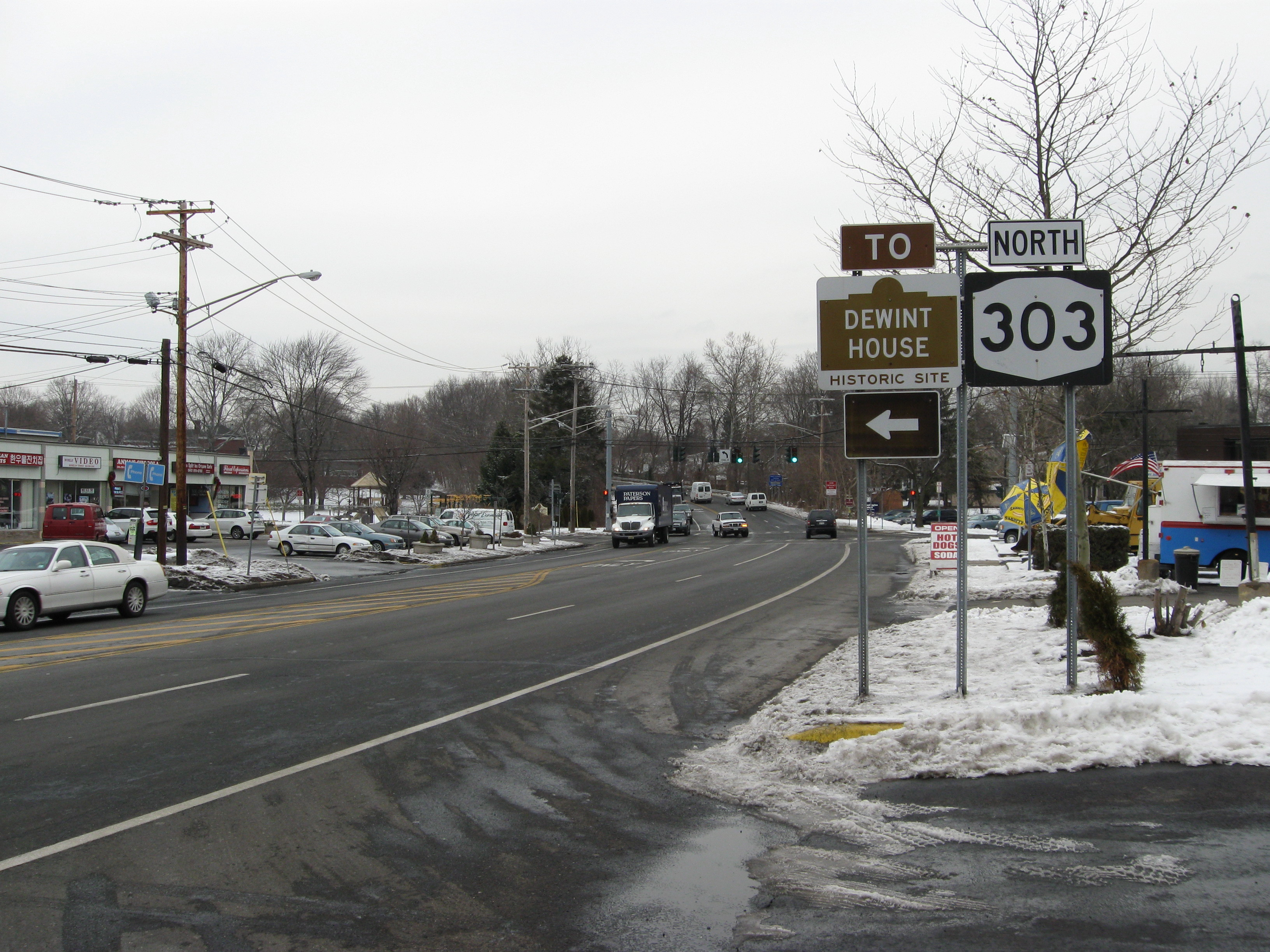 Northbound New York State Route 303 right after the southern terminus at the New Jersey state line in Tappan, New York. The road is about to apporach the intersection of Oak Tree Road, which leads to the DeWint House, which is a National Historic Landmark.